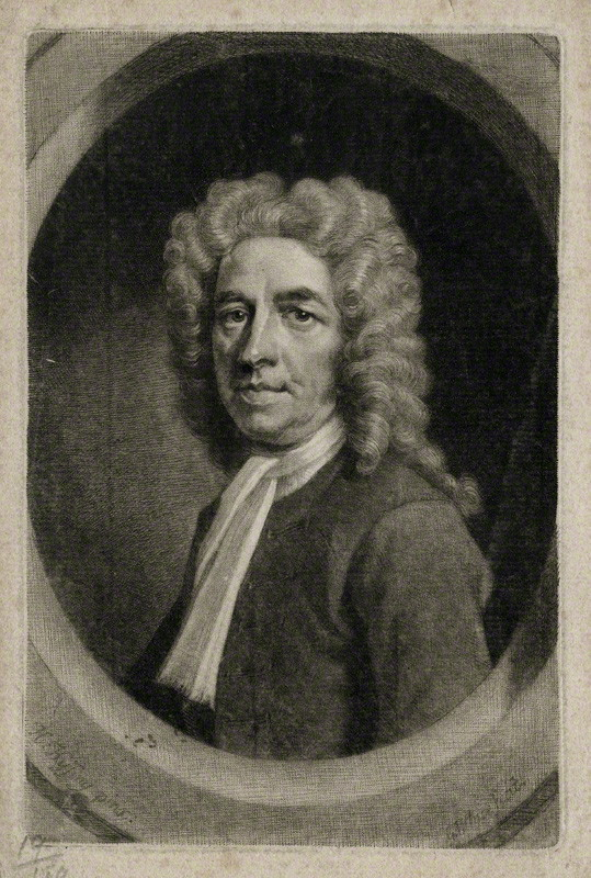 Portrait of Abel Roper (1665–1726), English journalist.